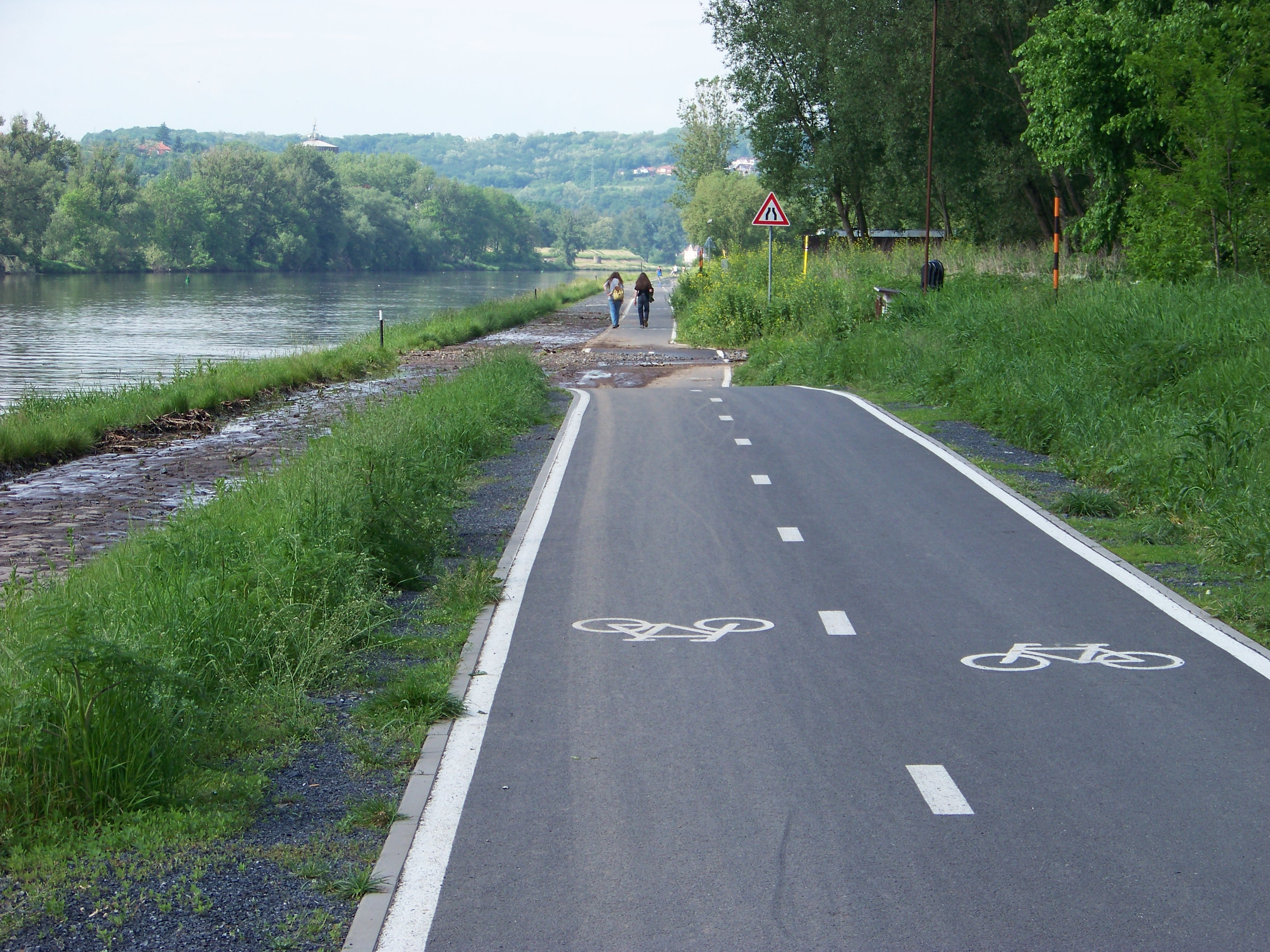 Zdiby-Brnky, Prague-West District, Central Bohemian Region, Czech Republic. Vltava bikeway under the Drahan Valley.